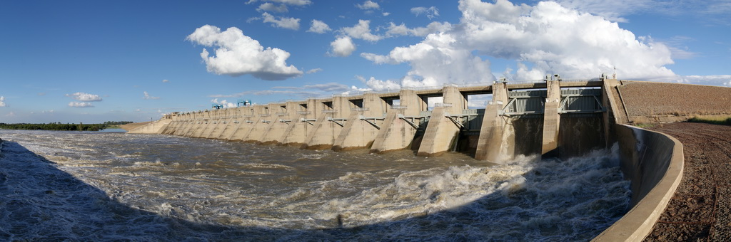 Bloemhof Dam. View from the Freestate side, with closest 2 floodgates open.